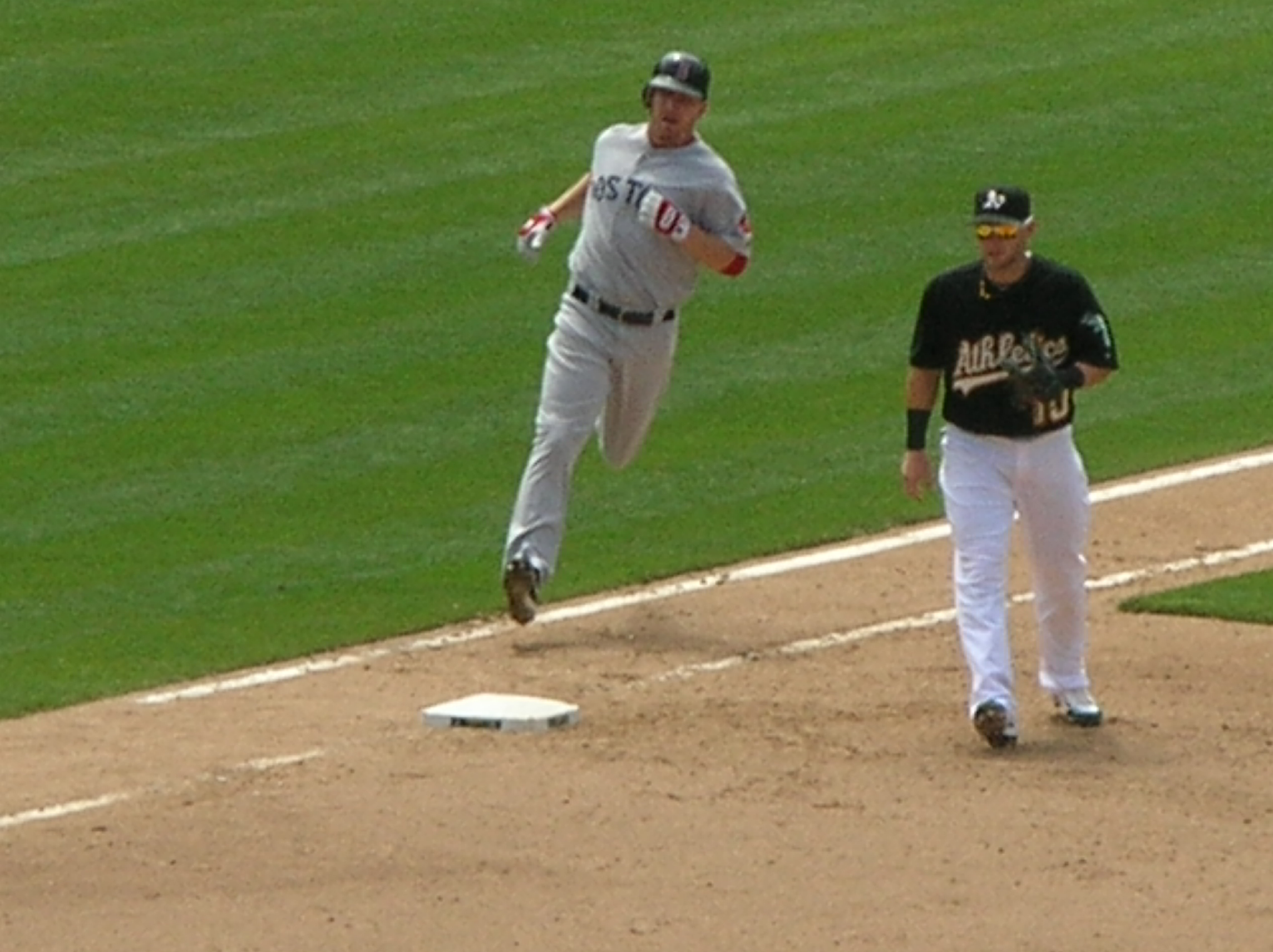 Boston Red Sox right field J. D. Drew singles during an away game against the Oakland A's. The A's won 6-4.